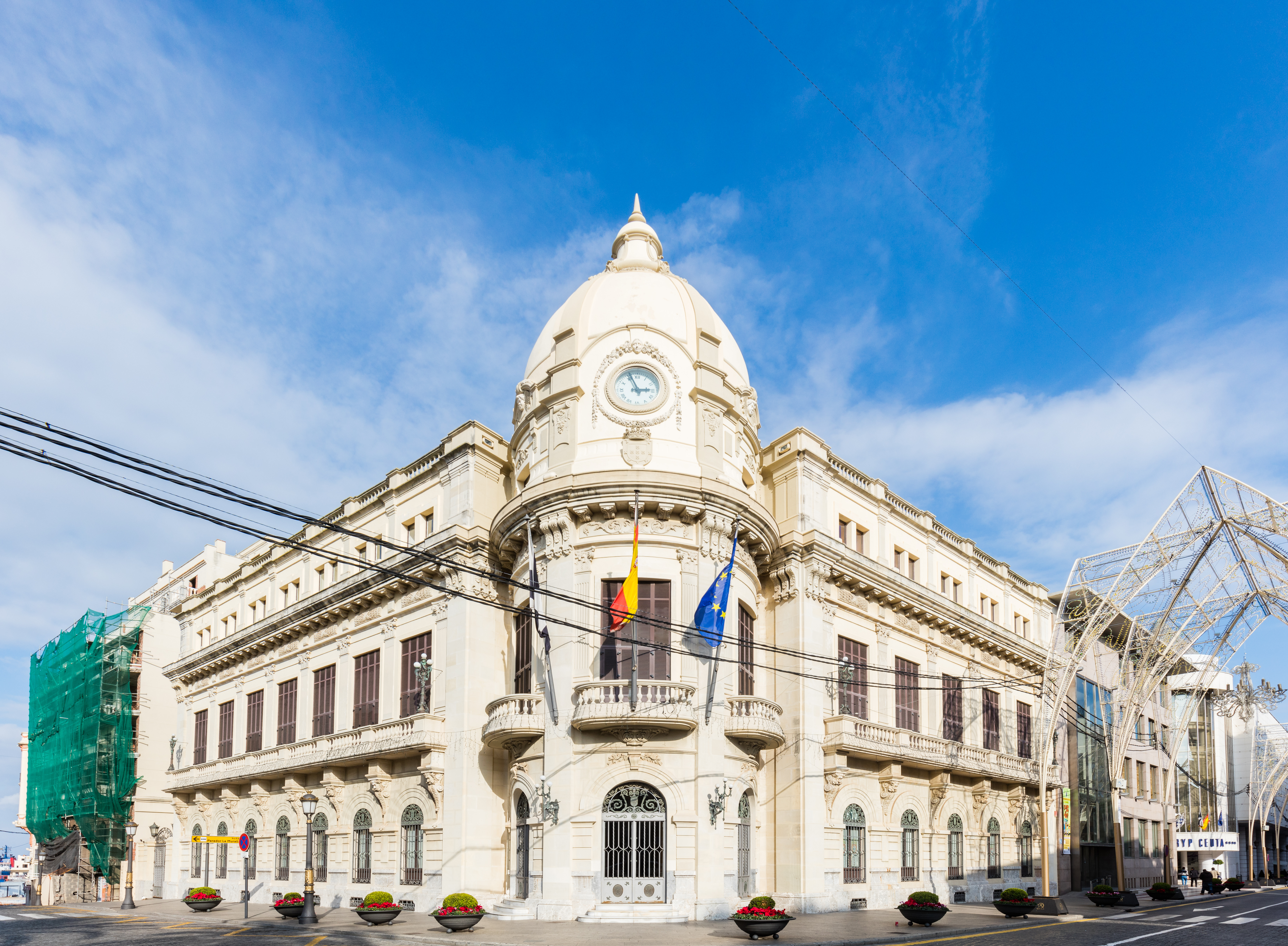 Town hall, Ceuta, Spain